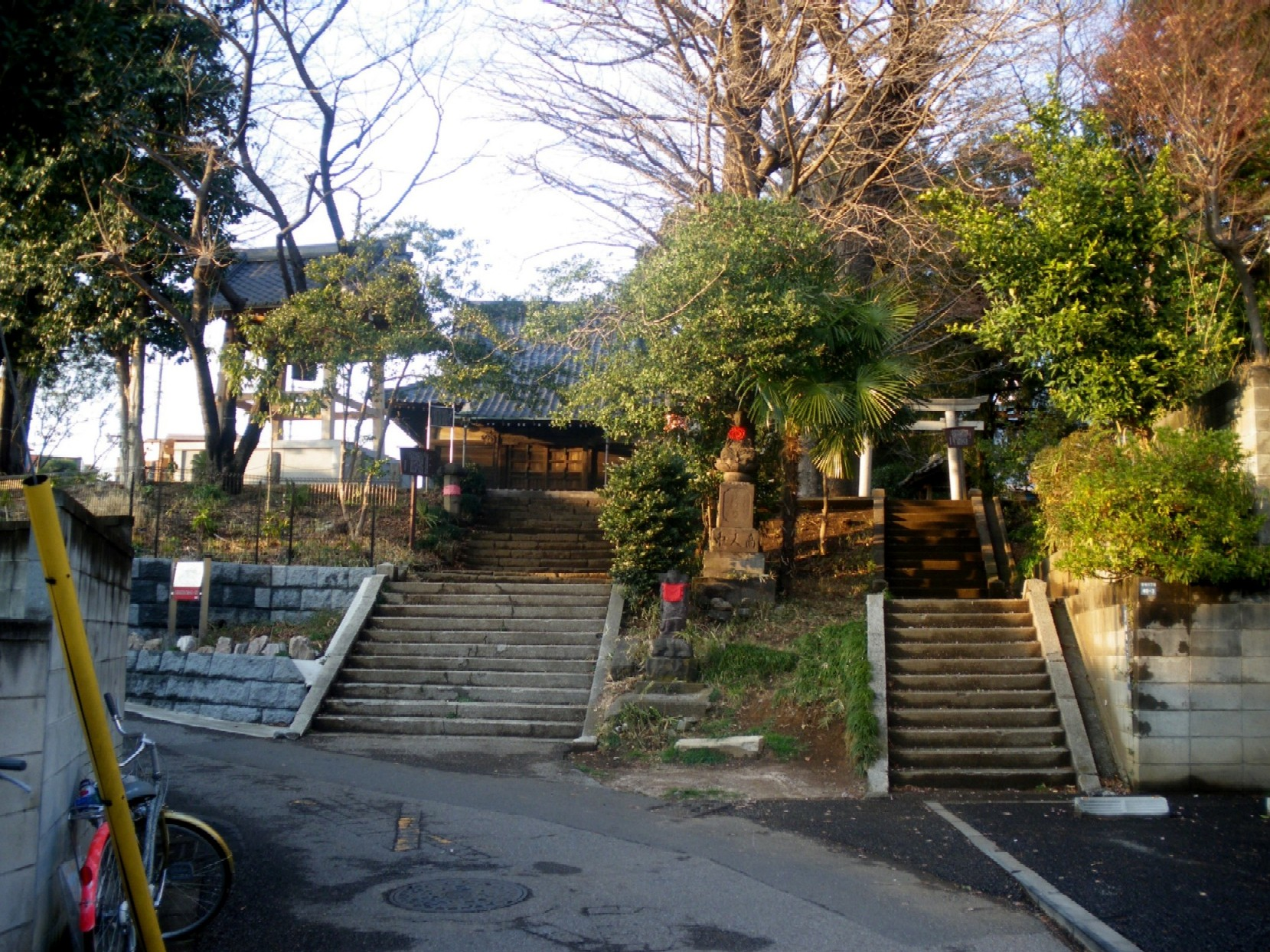 Akatsuka Daido Temple(Itabashi,Tokyo)